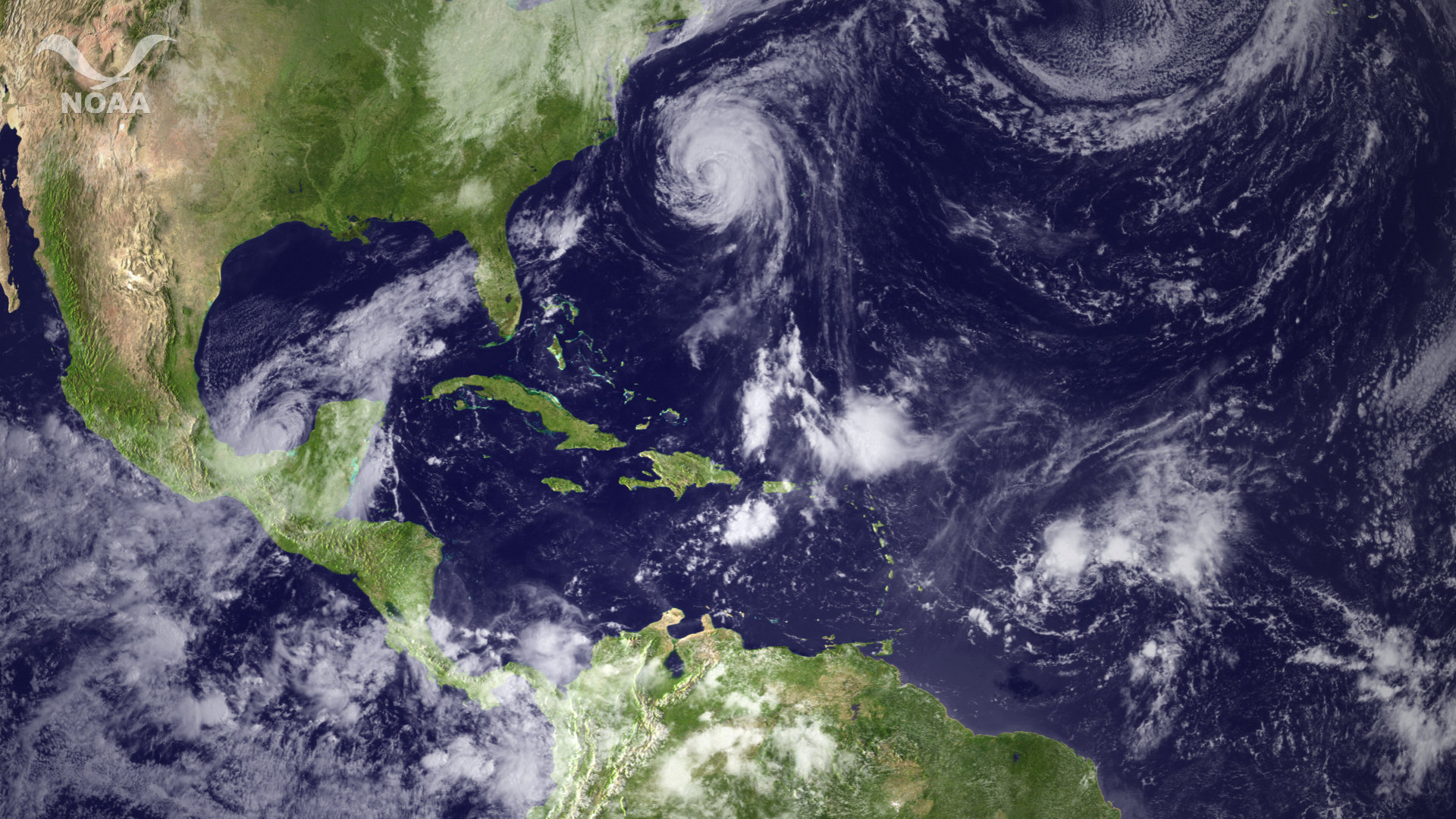 Hurricane Katia, Tropical Storm Maria, Tropical Storm Nate - three cyclones churn in the Atlantic basin. Katia is most likely headed out to sea, slipping between the U.S. and Bermuda. Maria, somewhat unorganized, is headed for the islands of the Caribbean and Bahamas. Nate may move west into Mexico or north in the the U.S. Gulf Coast - it is unclear. All in all, it is a busy day for hurricane trackers. This GOES-13 full disk image captured on September 8, 2011 at 1445z shows all three storms.